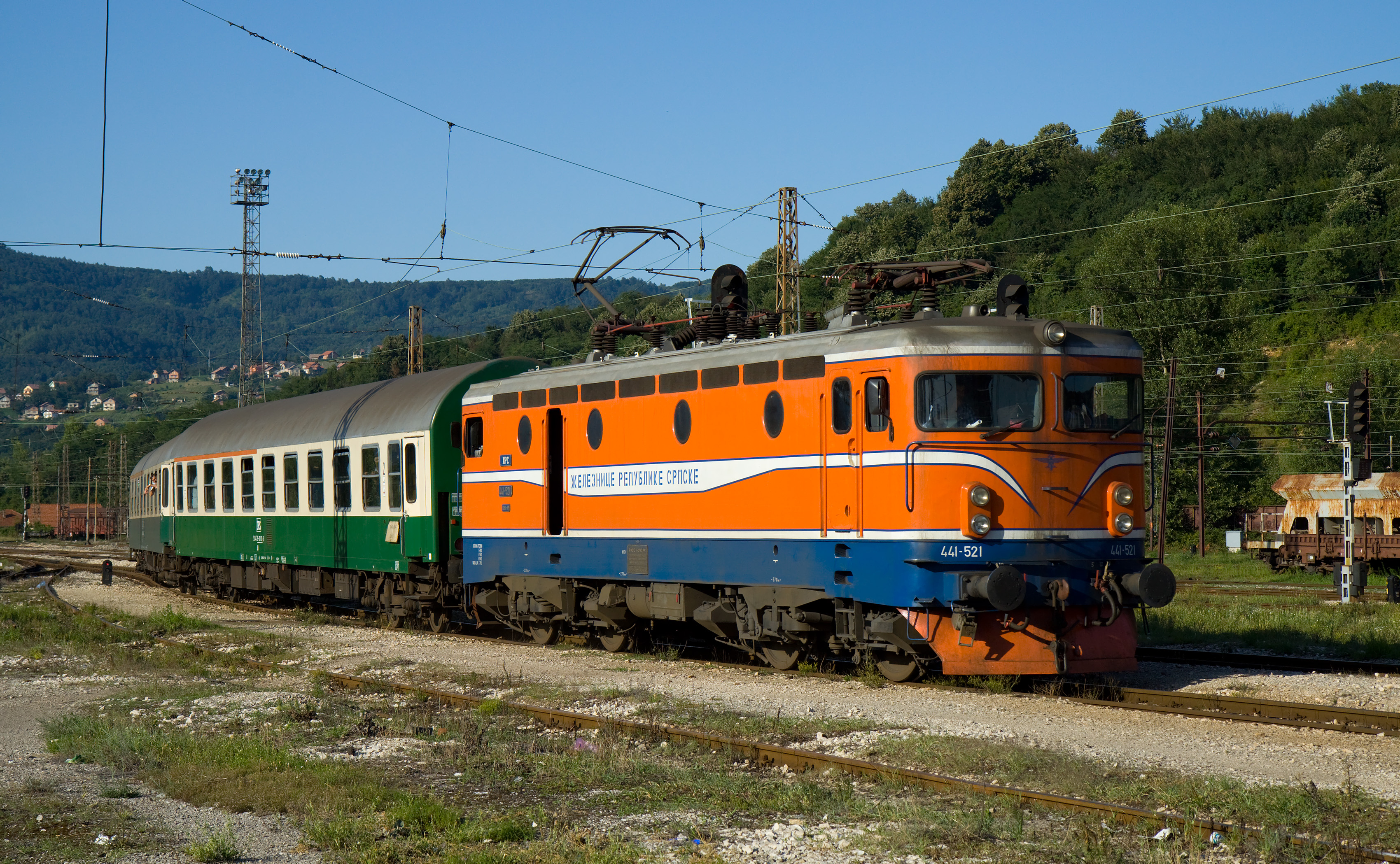 ŽRS (former JŽ) class 441 with a regional train arriving at Doboj